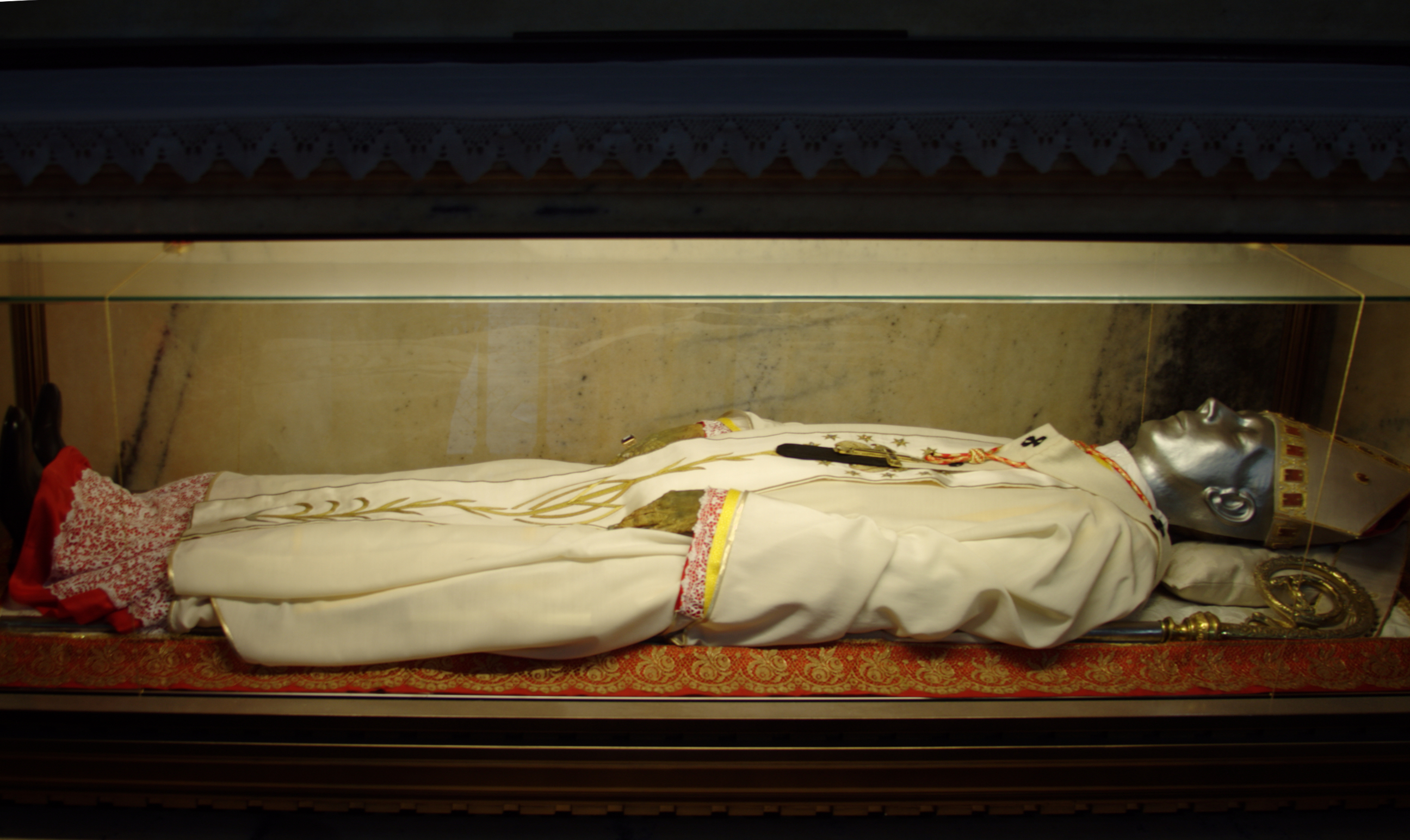 Interior of the Duomo, Milan